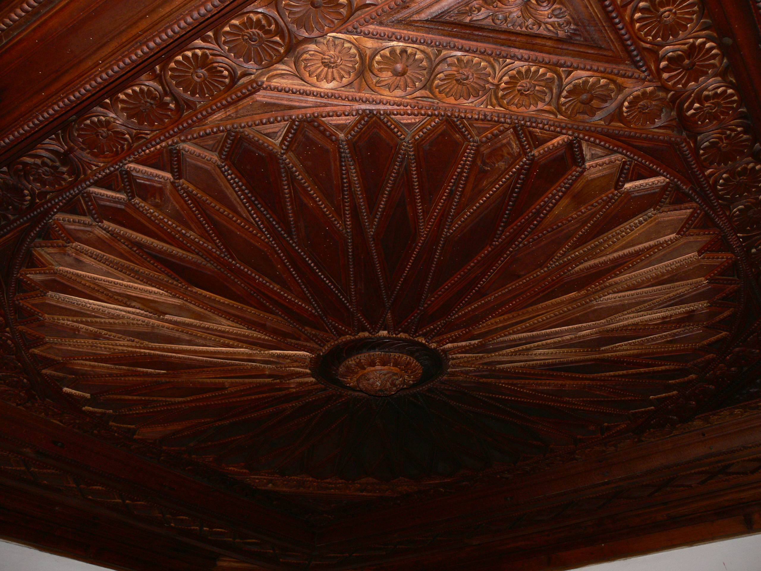 Wood-carved ceiling from Bulgaria